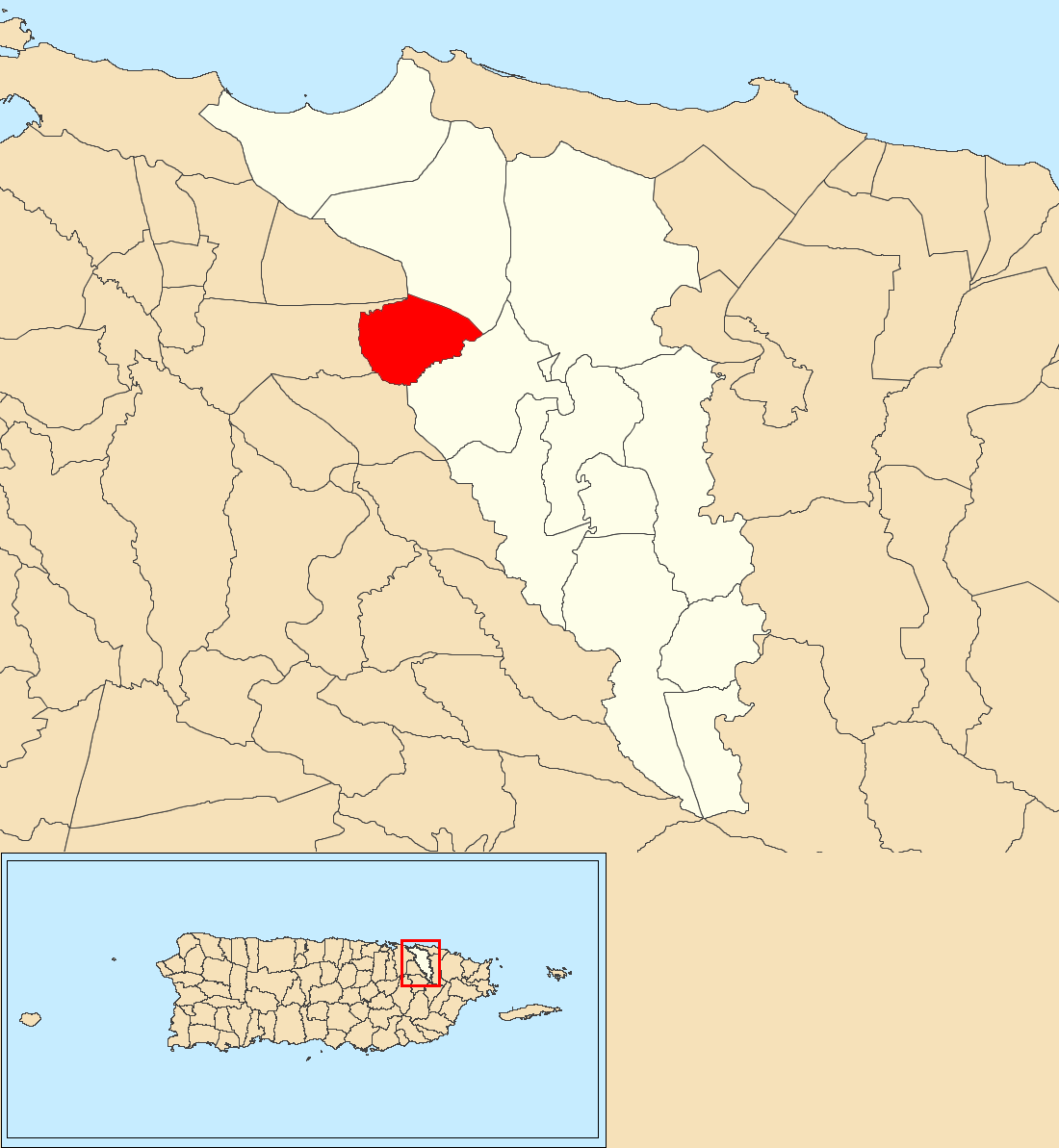 San Antón, Carolina, Puerto Rico locator map